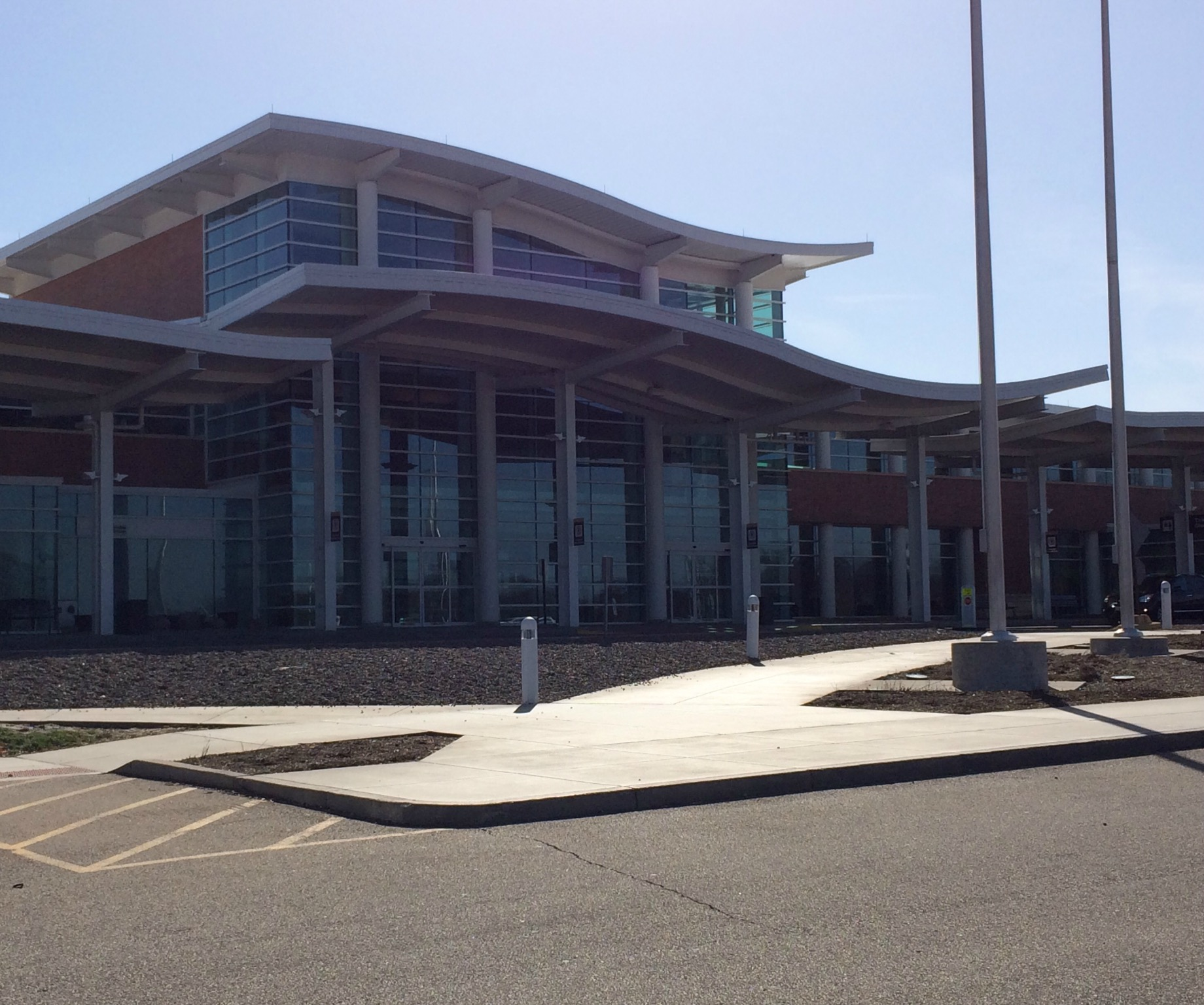 Main passenger terminal at PIA.